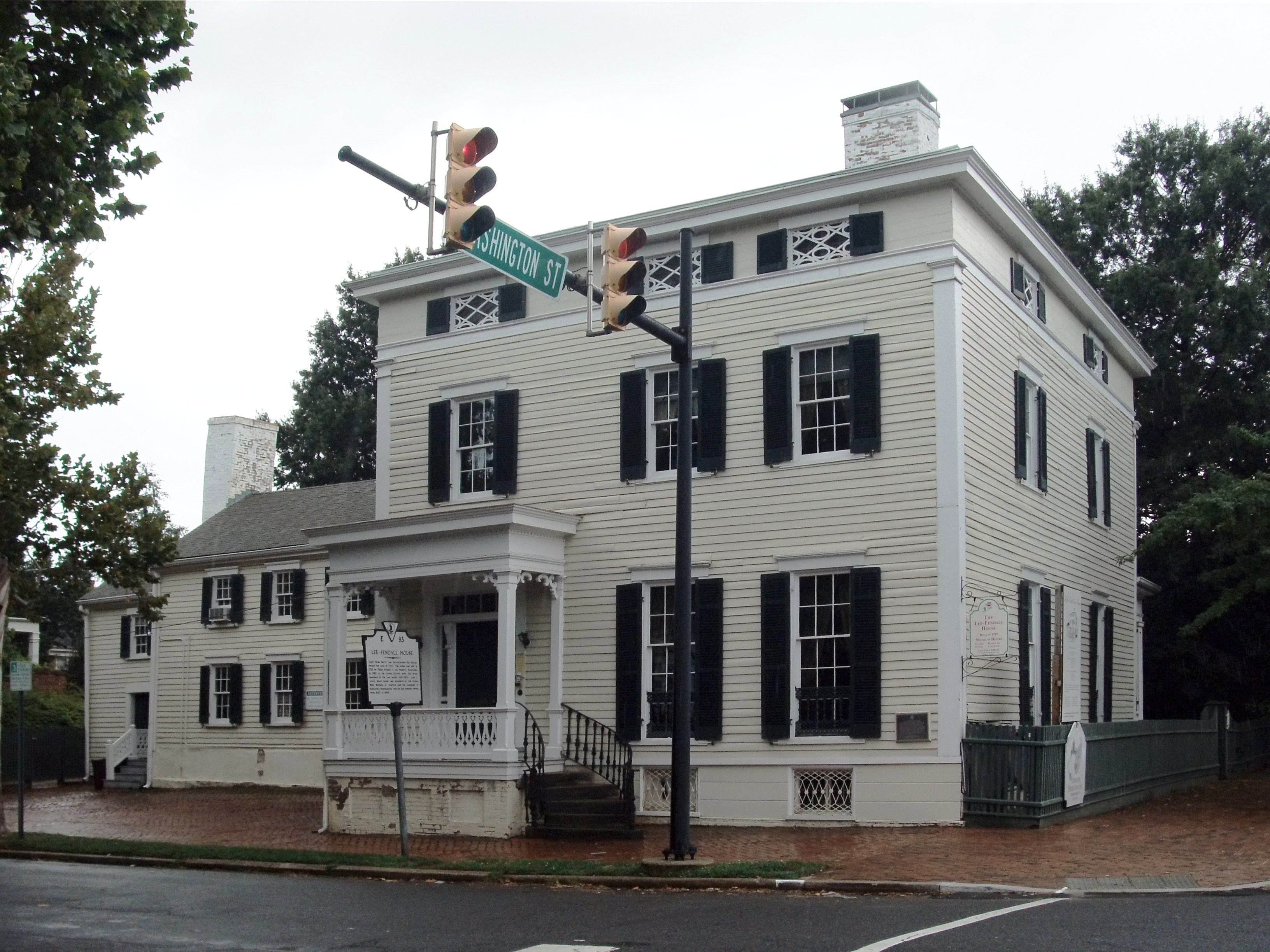 Image taken by me for Wikipedia